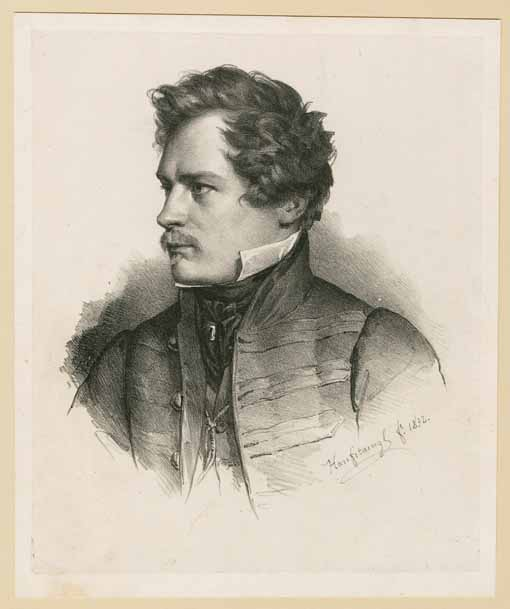 The german architect Franz Jakob Kreuter (1813-1899)